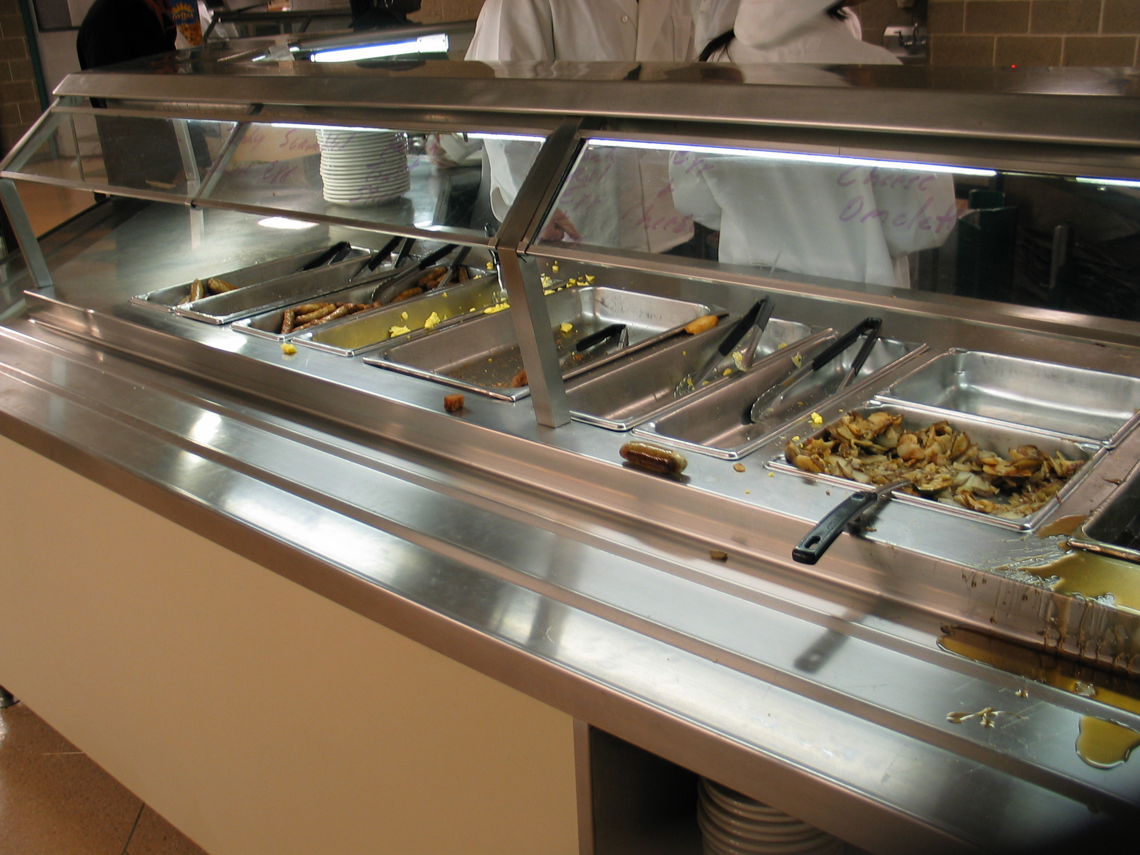 Midnight breakfast at Tillett Dining Hall, Livingston Campus, Rutgers University after hungry hordes of students get food